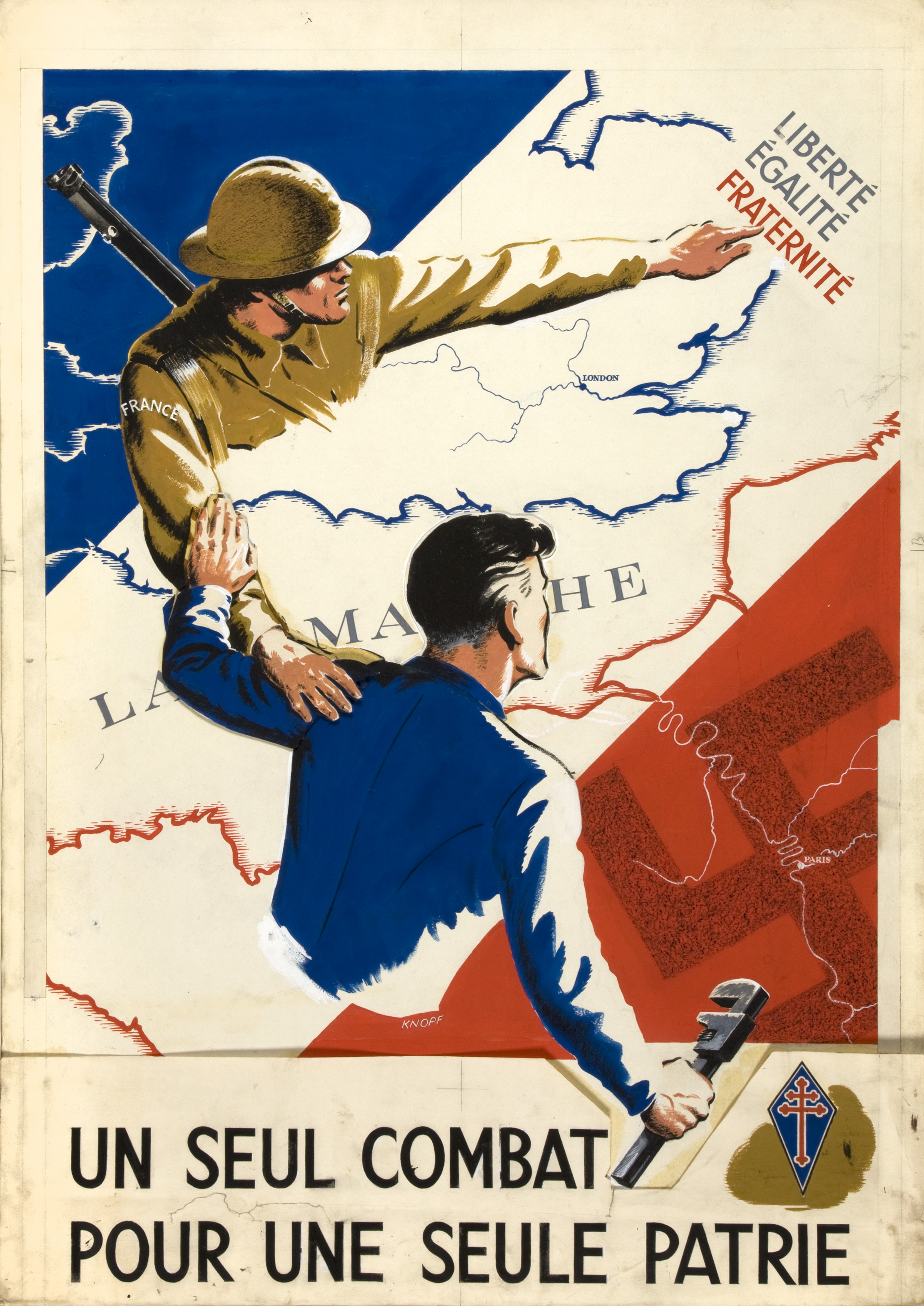 POSTERS: Unity of Strength - Inter-allied posters: 'Liberté, Egalité, Fraternité' (Head and shoulders of French soldier on map of southern England, head and upper body of French worker on map of northern France.) ('Un seul combat pour une seule patrie' partially deleted) Artist's signature: Knopf